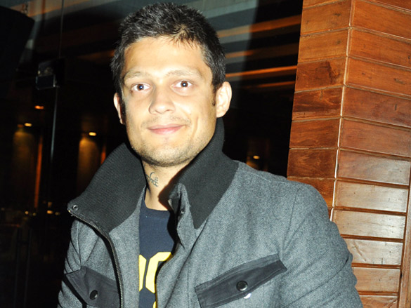 Siddharth Bhardwaj